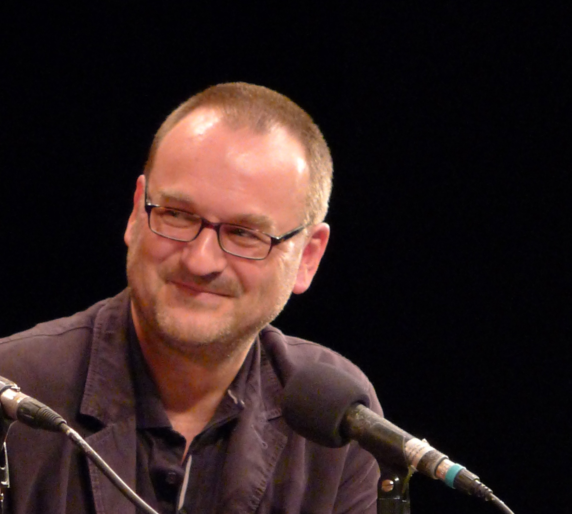 German writer Jan Koneffke at the Erlangen writers festival 2011UnknownUnknown der deutsche schriftsteller jan koneffke auf erlanger poetenfest 2011